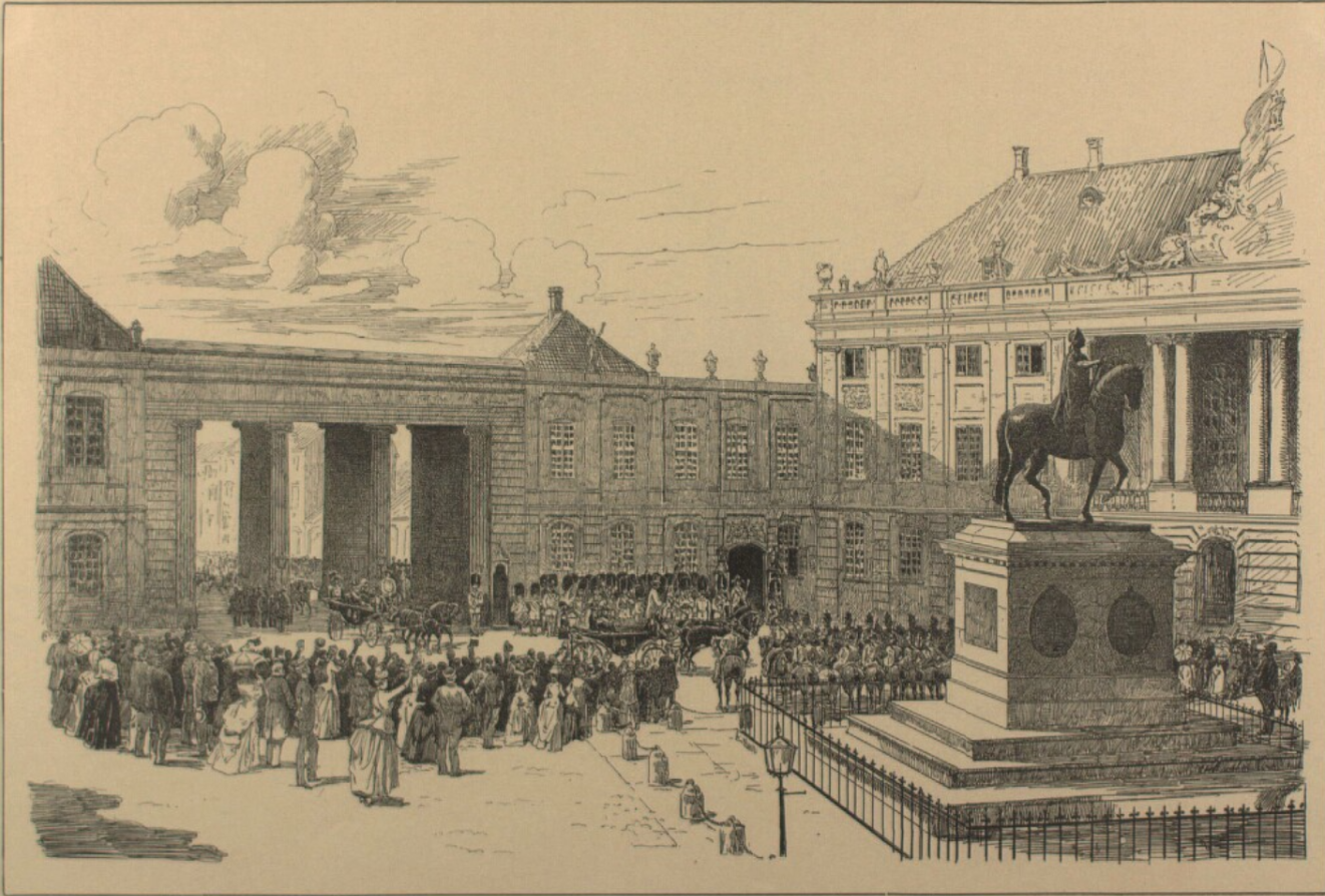 King Luiz of Portugal arrives at Amalienborg on 17. August 1886